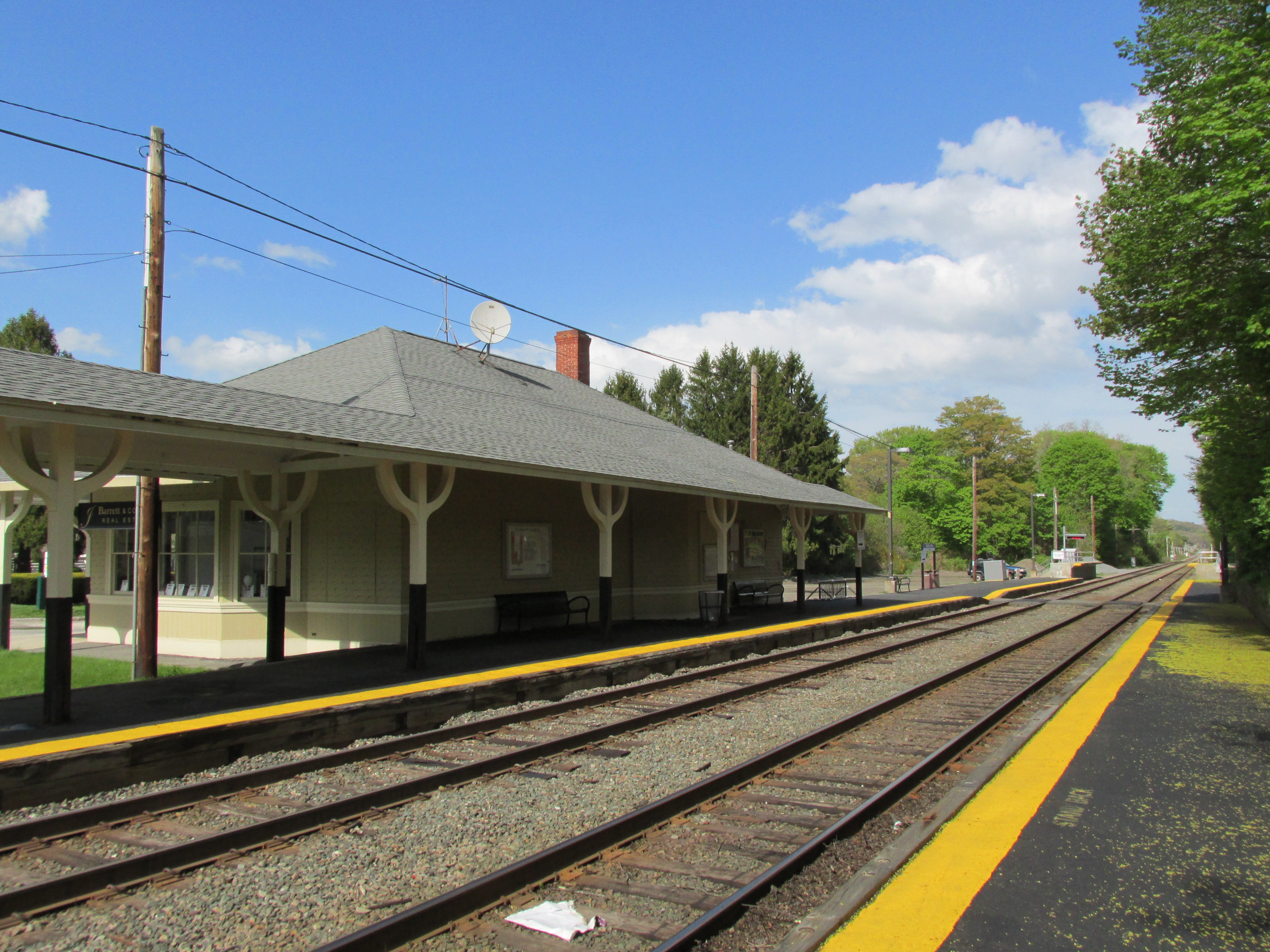 Depot, Beverly Farms Massachusetts - 2013